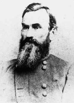 Benjamin G. Humphreys (1808-1882), Confederate General and Governor of Mississippi (1865-1868).